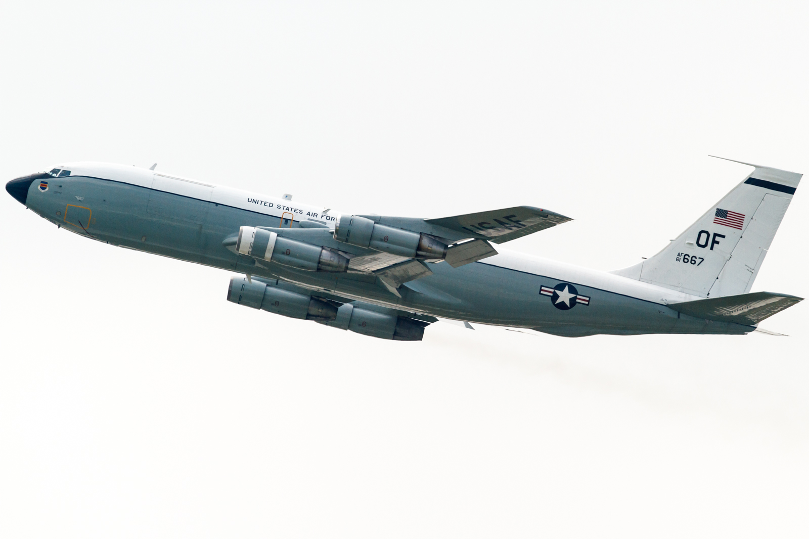 Aircraft: Boeing WC-135W Constant Phoenix 61-2667/OF(sn: 18343) Squadron: USAF 55th Wing / 55OG / 45RS Base: Offutt AFB(KOFF), Omaha, Nebraska, United States 08/05/2013 USAF Kadena AB, Japan